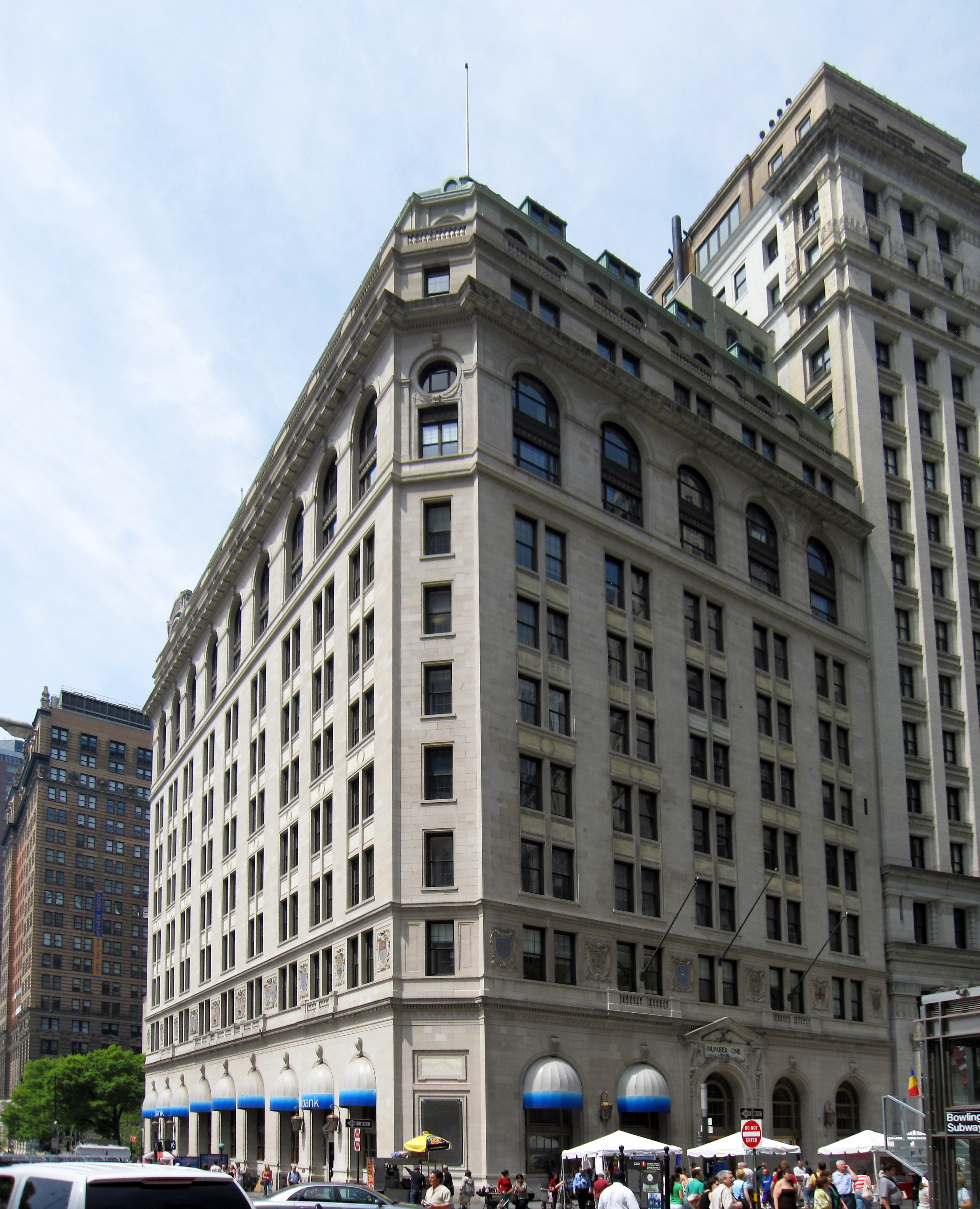 1 Broadway